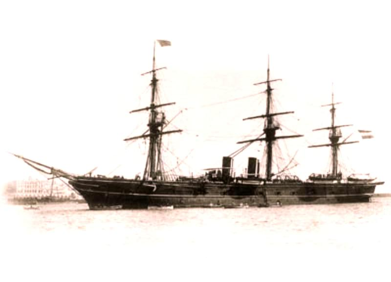 Zr. Ms. Tromp